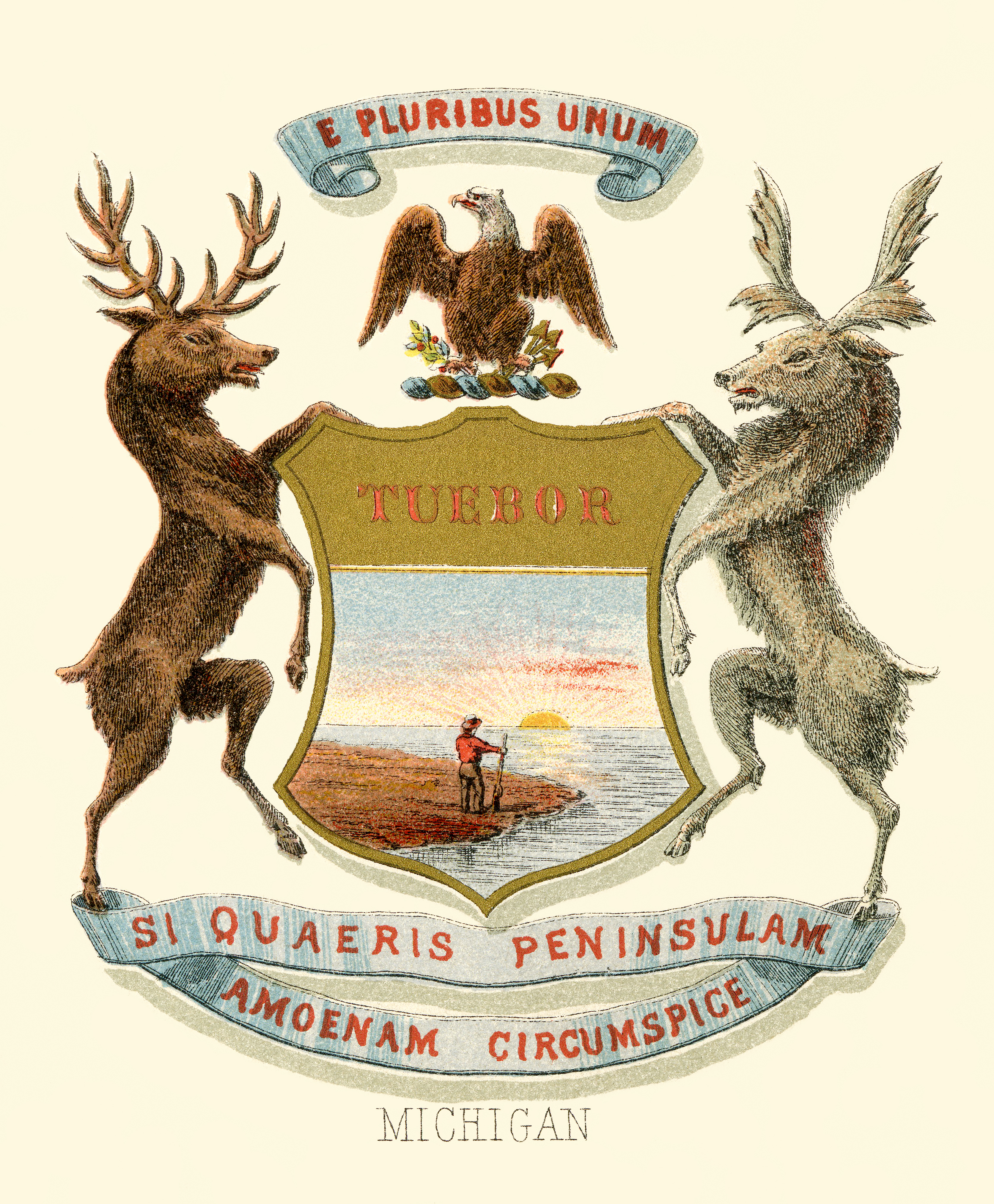 Michigan state coat of arms